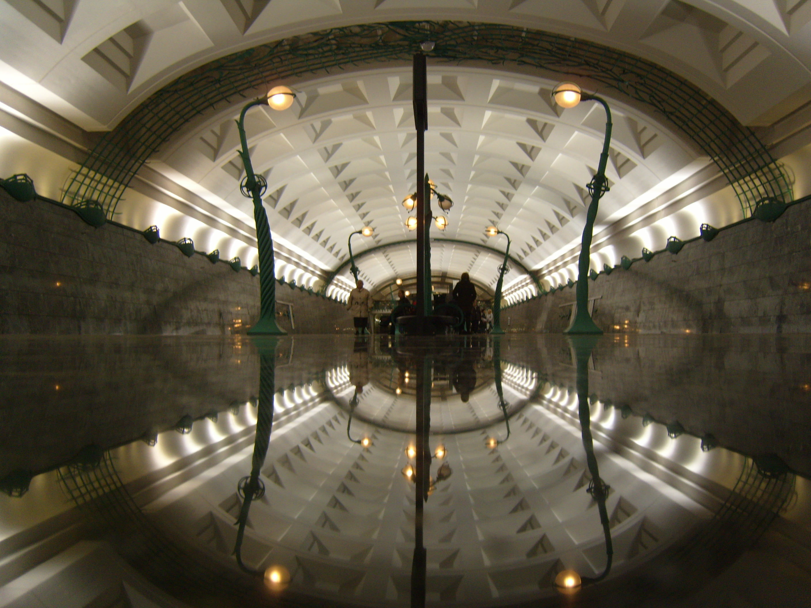 Station of Arbatsko-Pokrovskaya Line of Moscow Subway "Slavyanskiy bulvar"